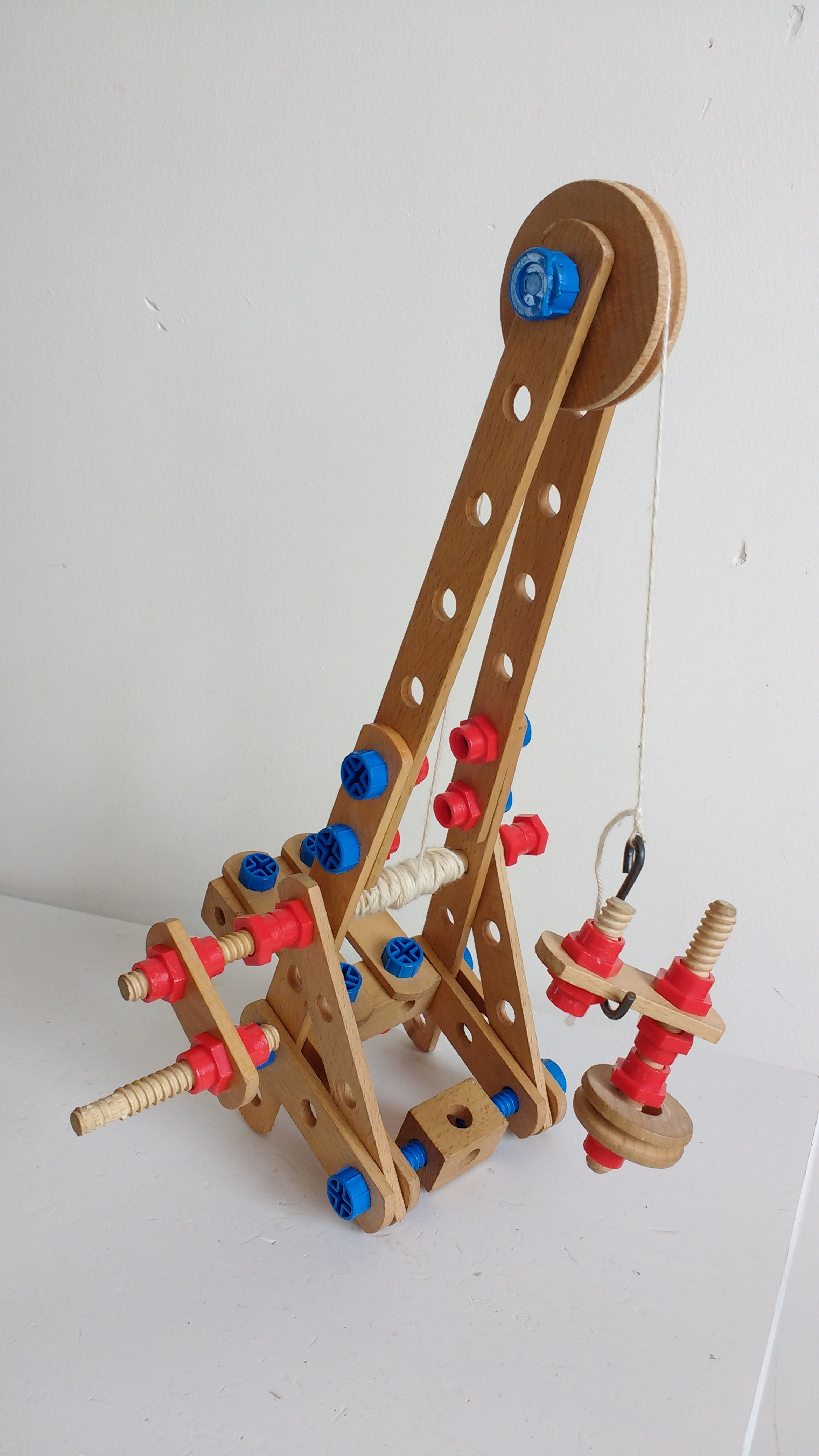 Toy crane created with the Bilofix construction toy set.